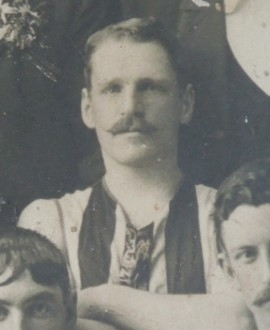 Photograph of Archie Smith in 1901.